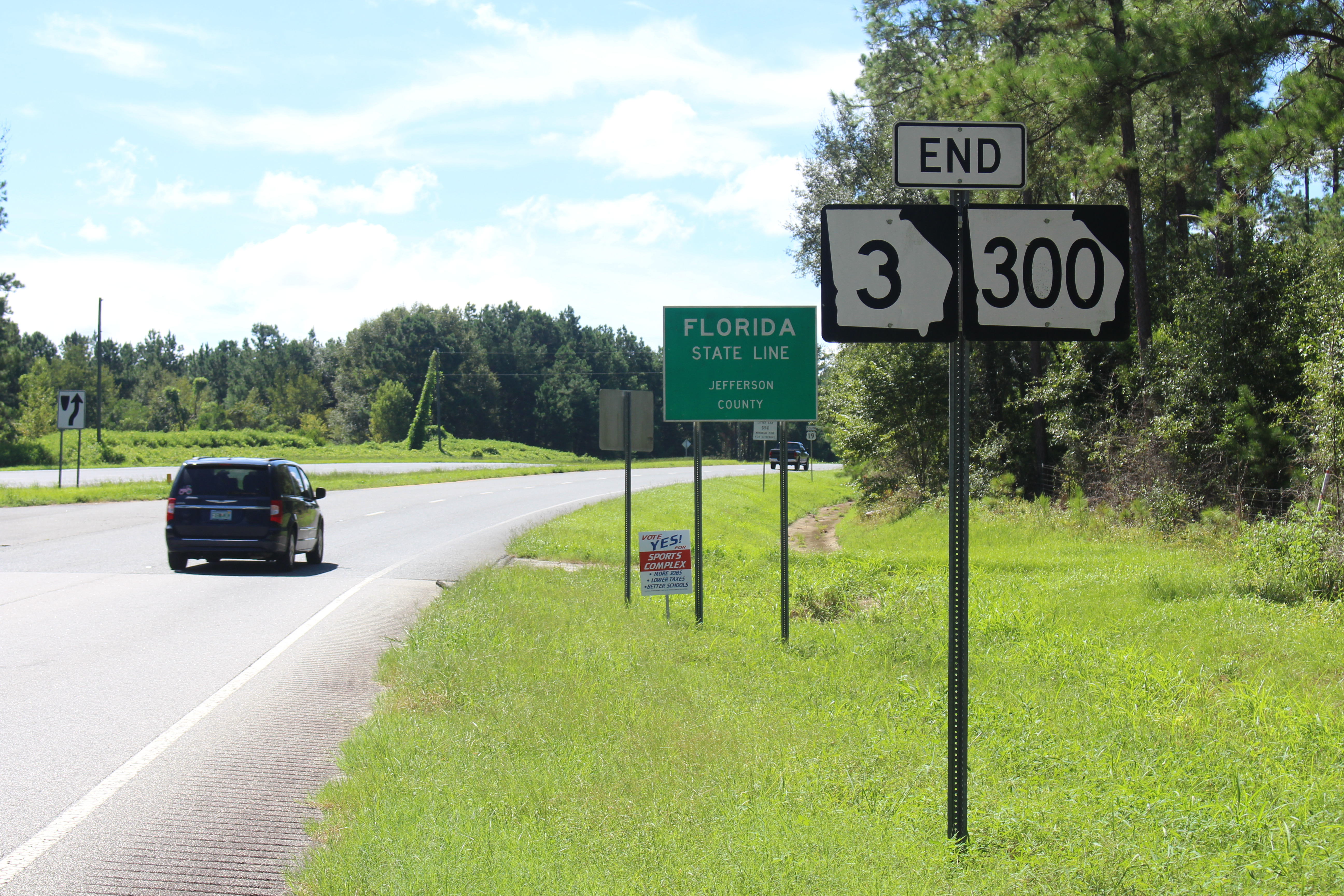 Jefferson County (Florida)/Thomas County (Georgia) line, US 19